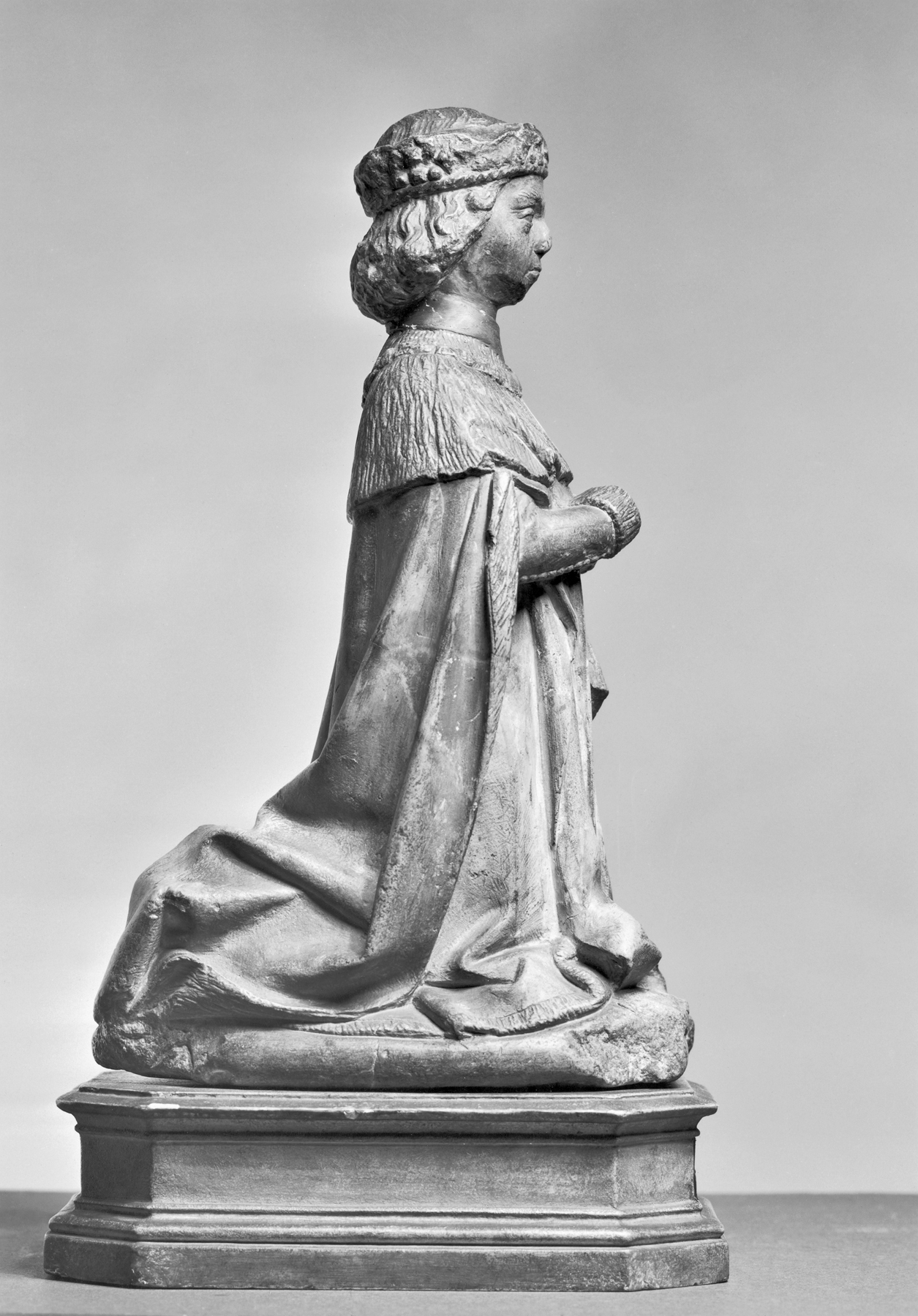 Duke Jean II "the Good" of Bourbon (1426-88), wearing the collar of the French order of St. Michael, is shown kneeling in prayer. This figure may have been the work described in later documents as being accompanied by a statuette of the duke's wife kneeling. Both works were placed at the base of a small stone cross on the altar of a chapel devoted to a relic of the True Cross, located in the crypt of the Sainte-Chapelle at Bourbon-l'Archambault, the ancestral seat of the dukes of Bourbon. Colombe was an important French sculptor who worked on many commissions for the French nobility, often involving portraiture, to which his conservative and observant manner was well suited. In his travels, he was influenced by local styles; here, we see the soft, loose drapery associated with Burgundy. Damage to the face, where an artist's style can be distinctive, makes a firm attribution difficult.